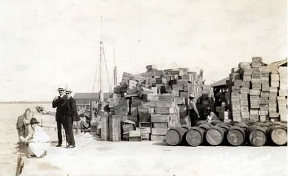 Picture of barrels of liquor destined for the USA from West End Grand Bahama during US Prohibition